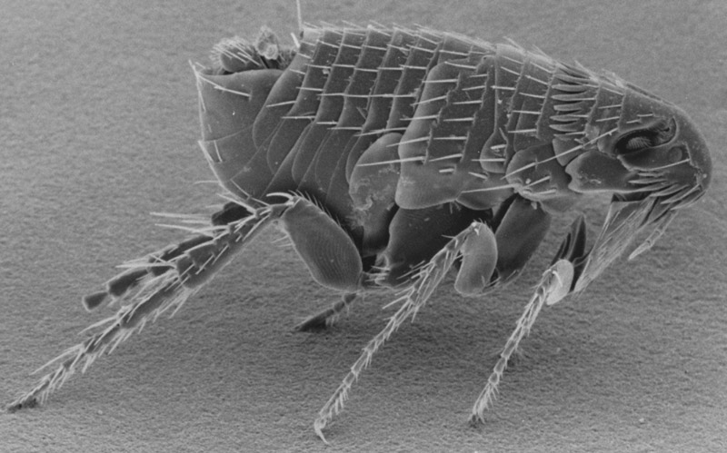 Scanning electron micrograph of a parasitic insect of domestic animals